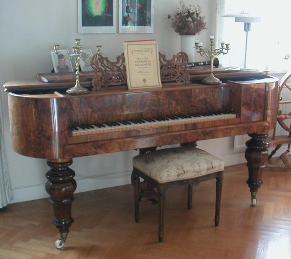 Square piano, late 19th century